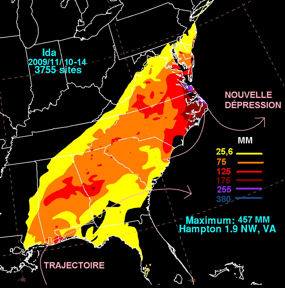 French and colorized version of the total accumulations of rain in US left by Hurricane Ida and the extratropical storm following it in 2009 during the period from 10th to 14th of November 2009.